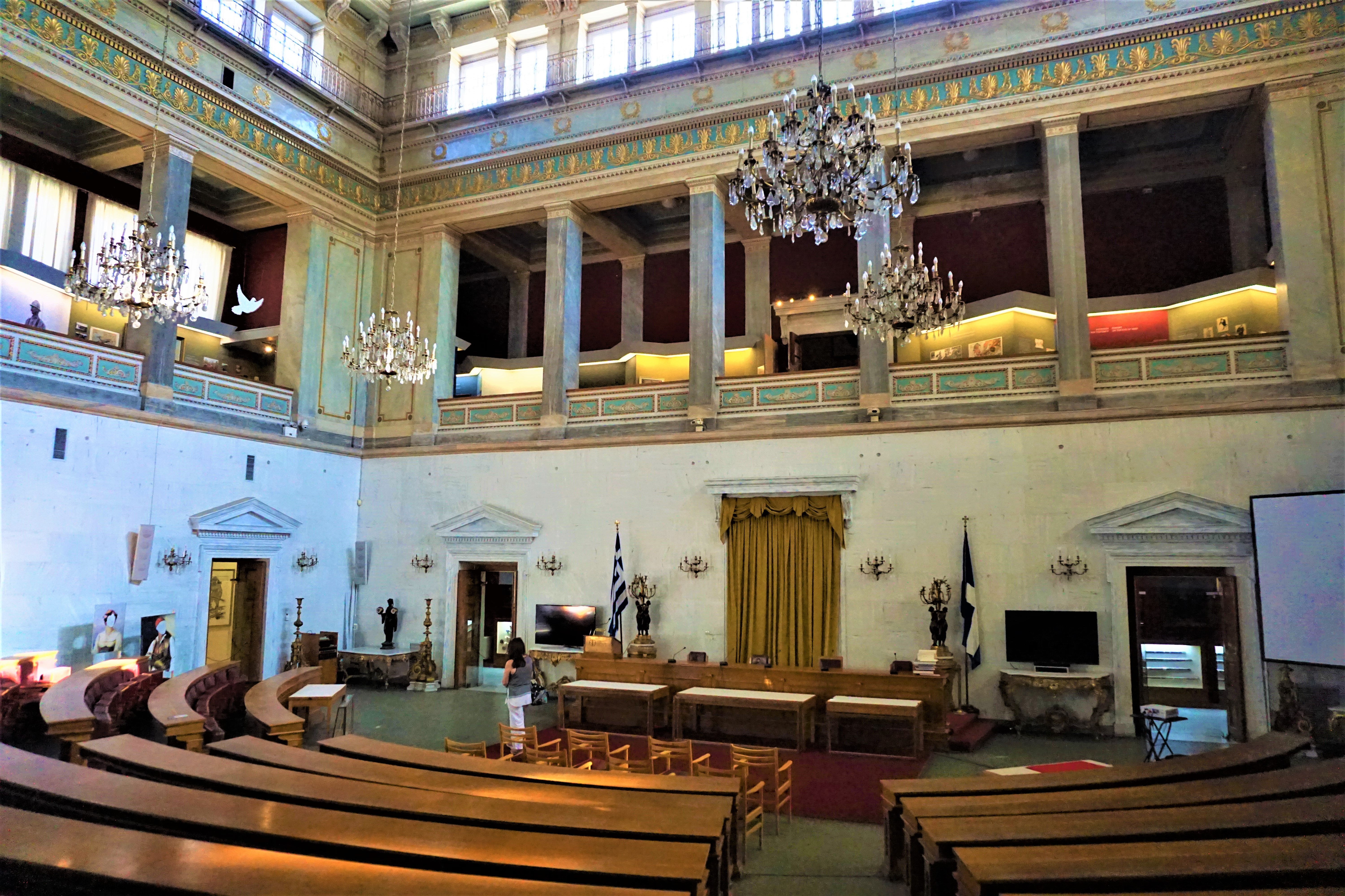 Old Parliament House, Athens - National Historical Museum, Athens - Joy of Museum - for details